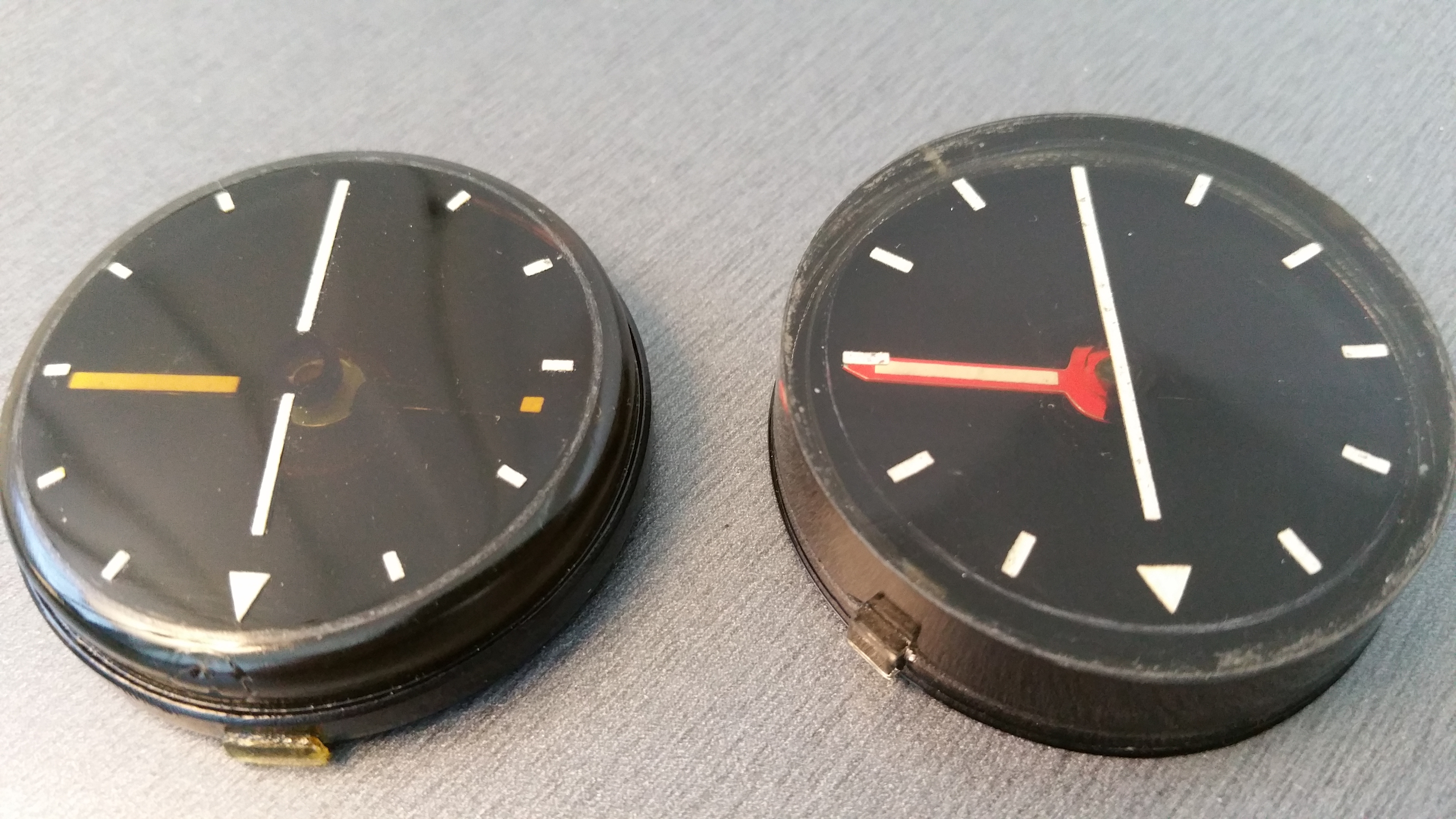 Two different types of needle chambers in Suunto M-311 compasses